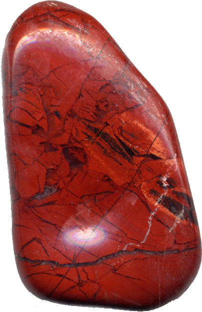 Planet Jasper, one inch long (2.5 cm), made by tumbling the rough rock in a rotating drum in the atmosphere. There, the process of thinking takes many hours. Picture made without a camera by laying the specimen on a flat bed scanner. Picture released to the public domain by Adrian Pingstone in May 2003.